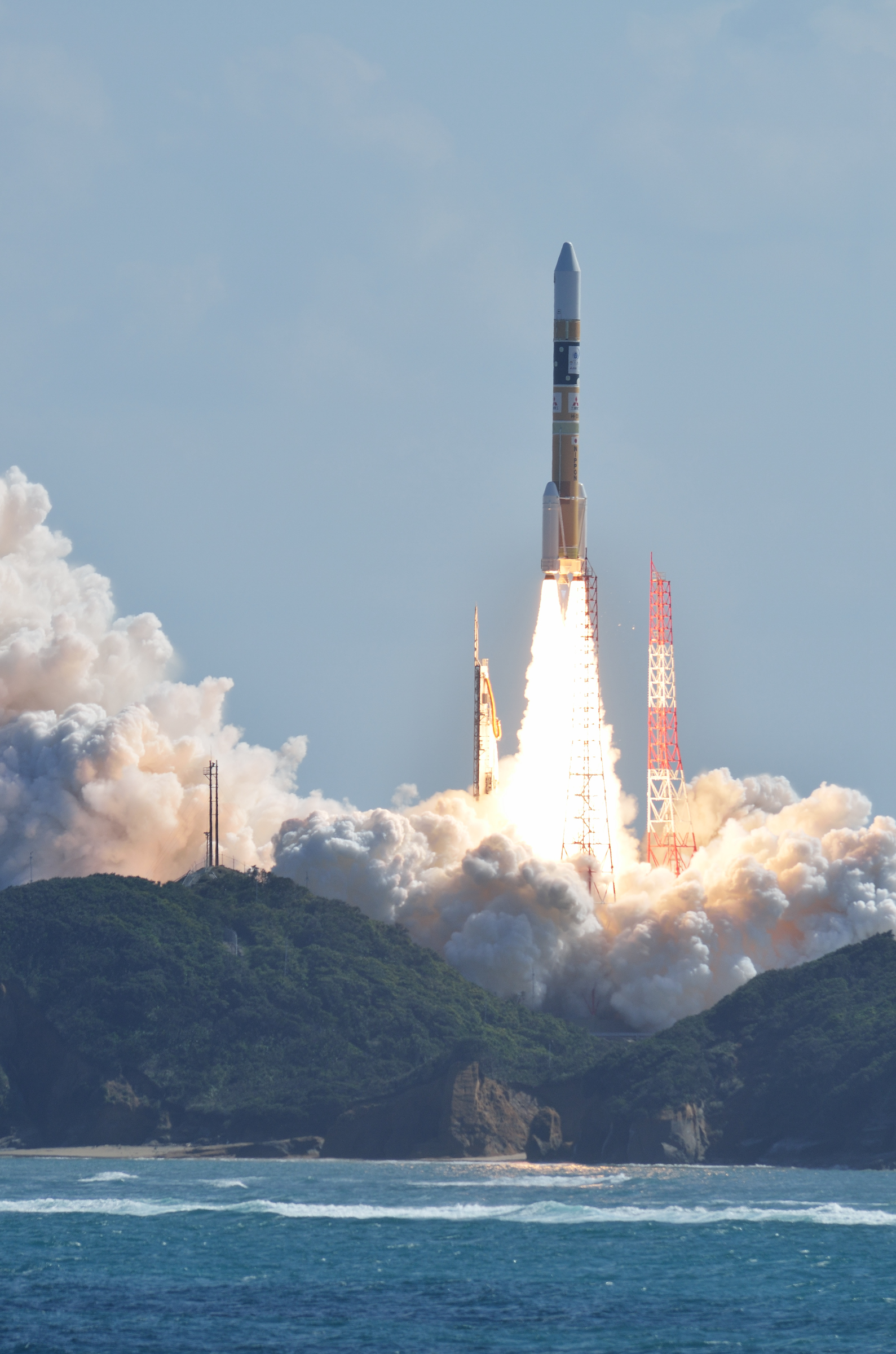 H-IIA Launch Vehicle Flight 25, launching the geostationary meteorological satellite "Himawari-8".